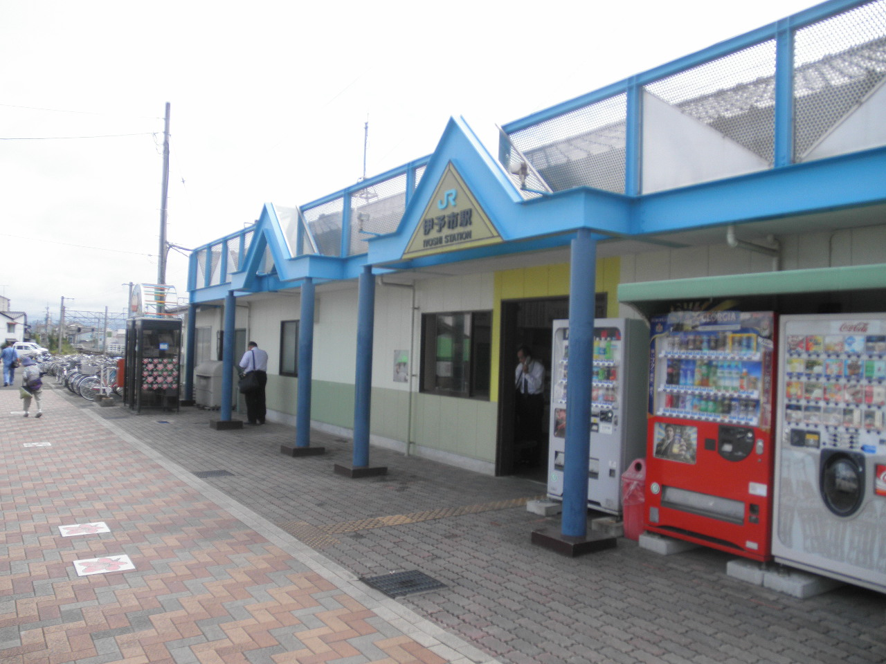 Iyoshi Station